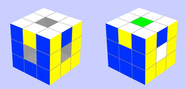 An image illustrating the relationship of parity on Rubik's cube and the Void Cube